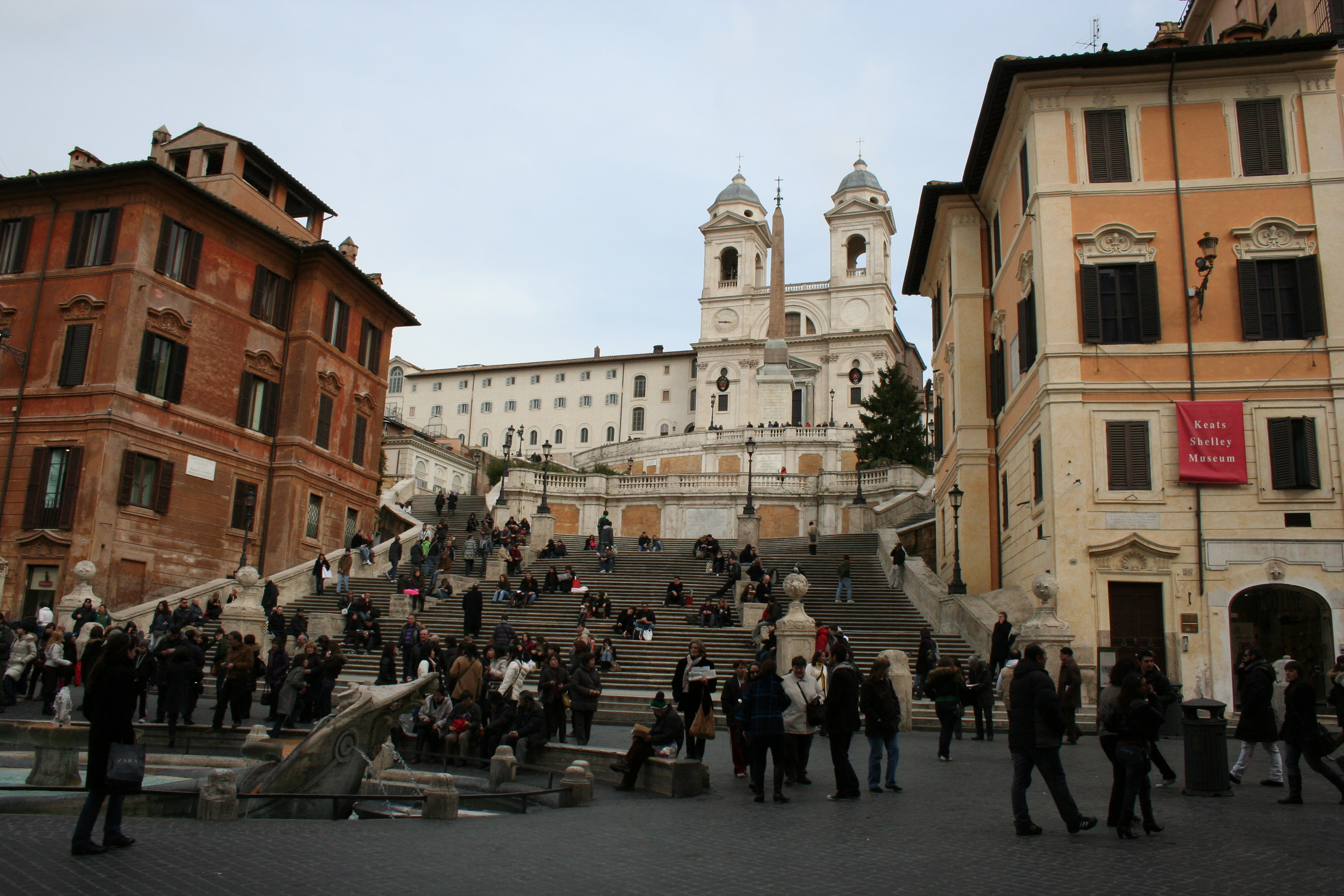 The Keats Shelley Museum, Spanish Steps, Rome, Italy